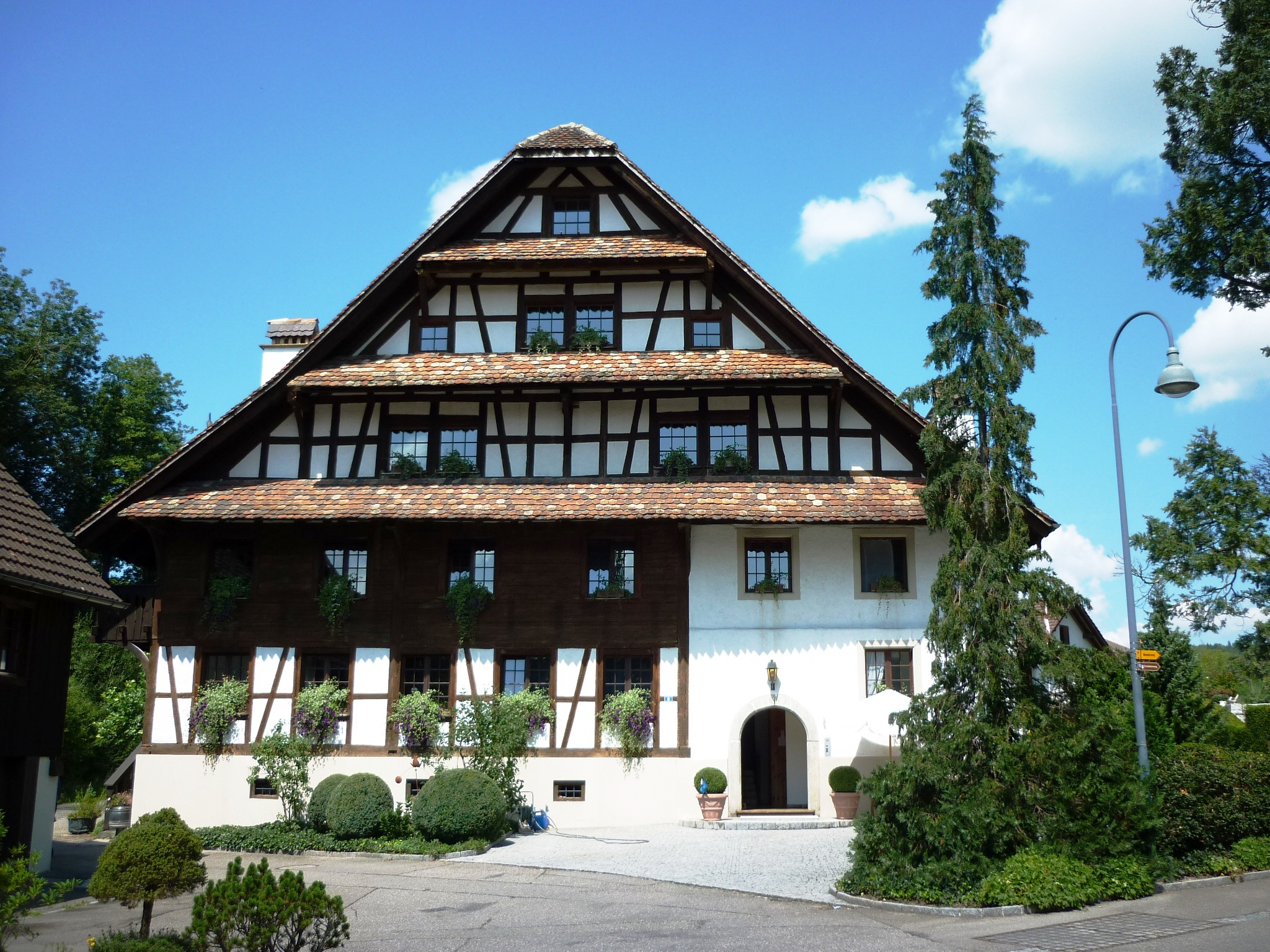 Jonen AG, Switzerland